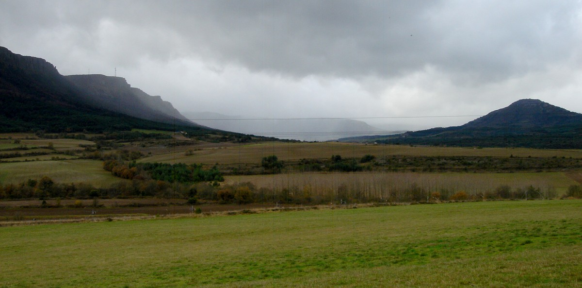 Kuartango valley (Araba, Basque Autonomous Community, Spain), Arkamo mountain range (left) and Marinda (right)